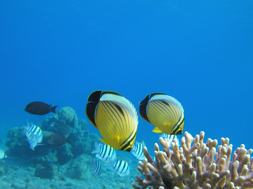 Chaetodon austriacus; Original description: Ocean bacteria with the light-sensitive proteorhodopsin enzyme live several meters above this coral reef.